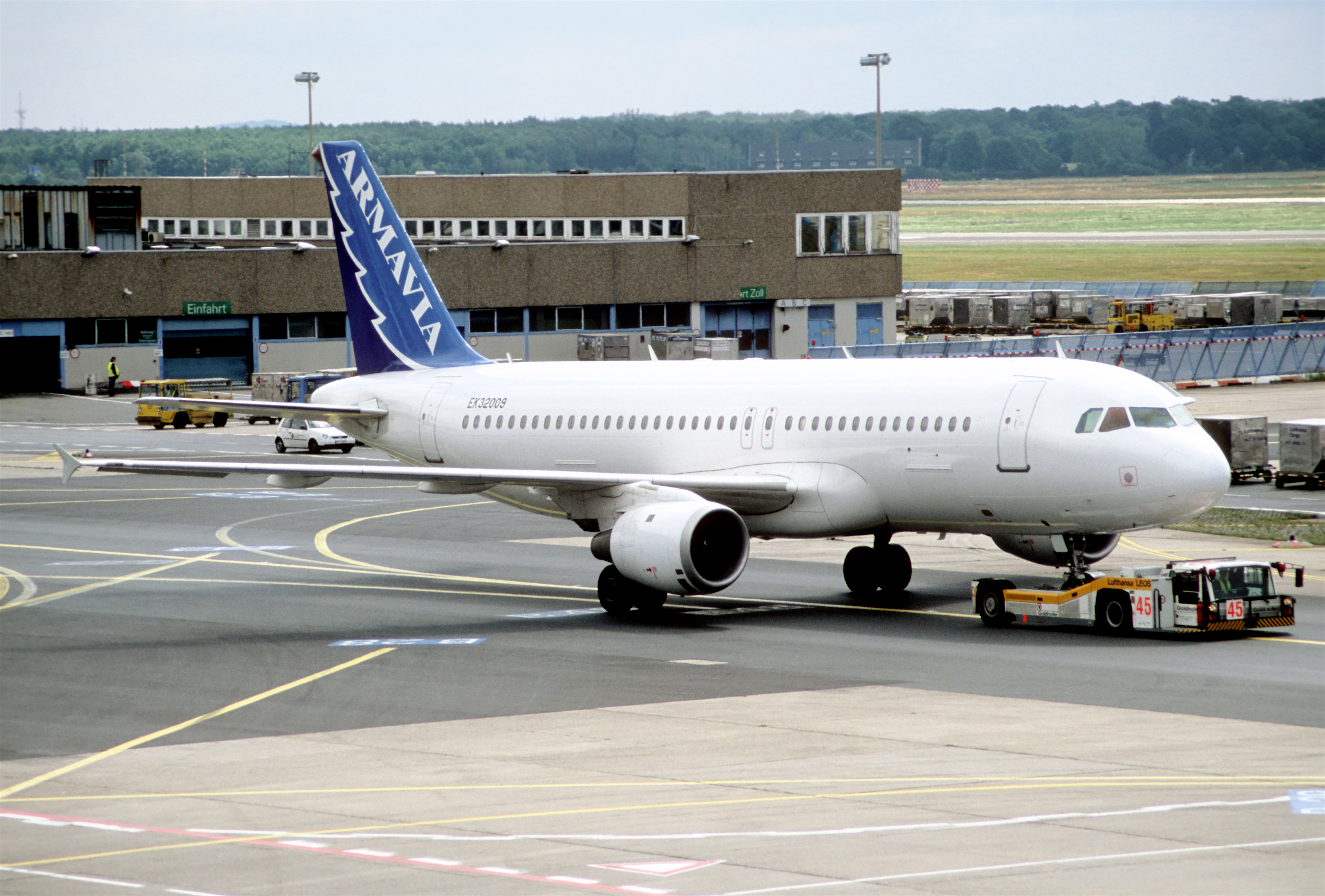 This A320 (c/n 547, first flight June 28, 1995, initial delivery to Ansett Australia as VH-HYO), named after Mesrop Mashtots, operating Armavia Flight 967 crashed into the Black Sea en route from Yerevan to Sochi, a resort town in Russia. The fatal crash was a CFIT accident, killing all 105 passengers and 8 crew on board. The aircraft was completely destroyed by impact with the water. The crash was caused by inadequate control inputs of the Captain following a go-around after the first attempted approach. Contributing factors to the accident were the lack of necessary monitoring of the aircraft descent parameters by the First Officer, and the improper reaction of the crew to the subsequent GPWS warning. Poor visibility and weather contributed to the crash as well.